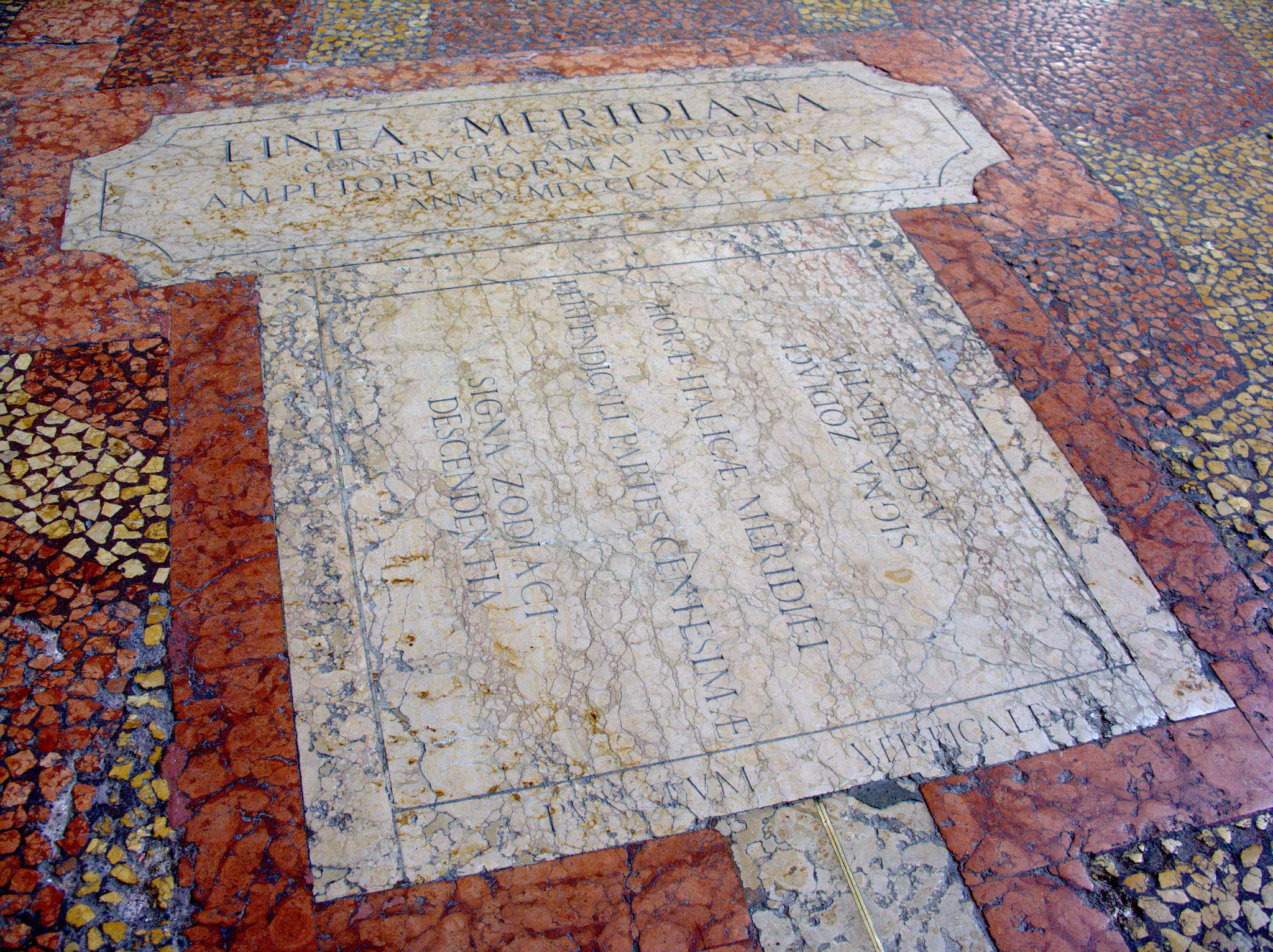 Bologna, Italy - San Petronio church - Header of the sundial into the church.